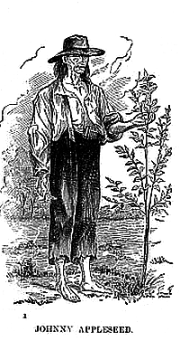 Howe's Historical Collections of Ohio, Ohio Centennial Edition, 1903